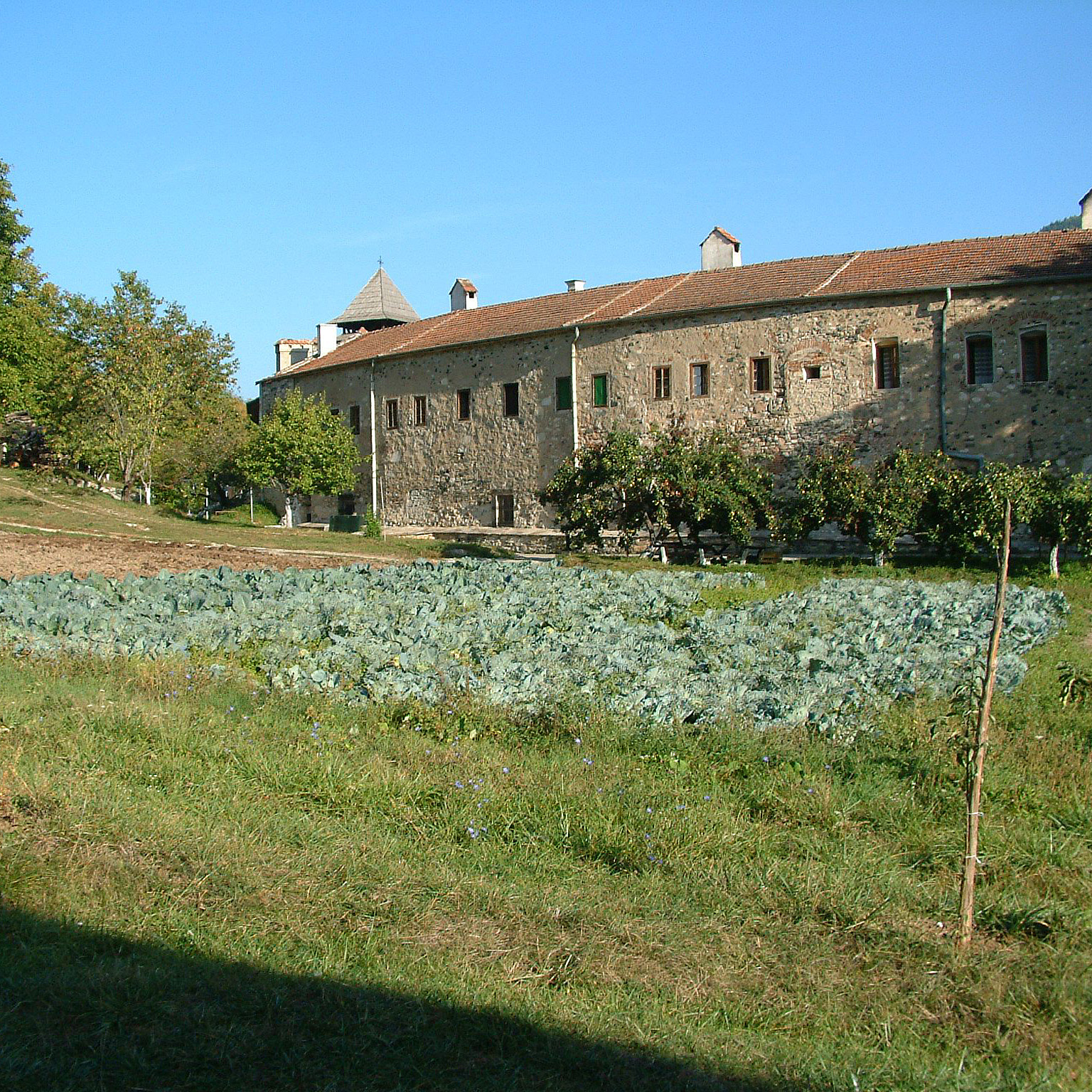 Vegetable garden of Studenica monastery